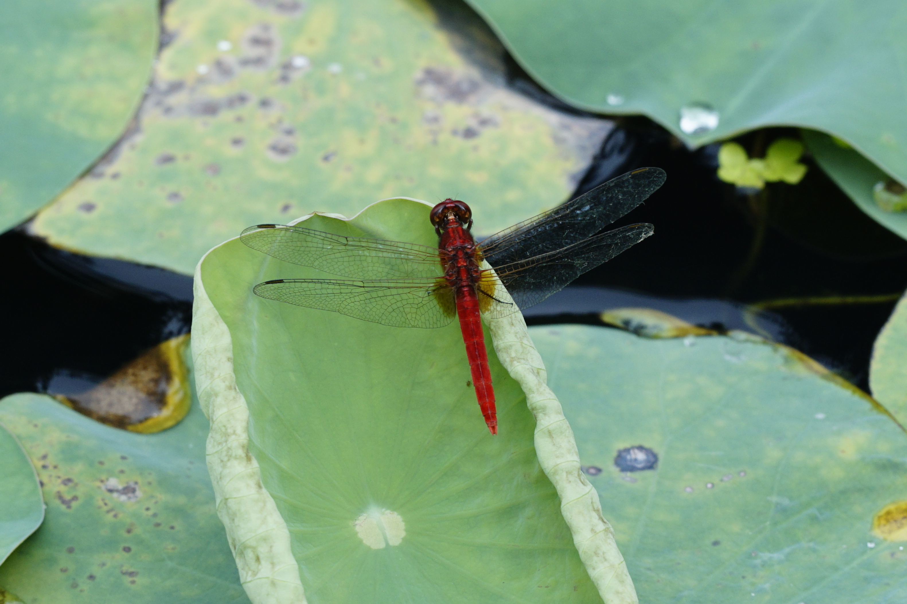 Rhodothemis rufa